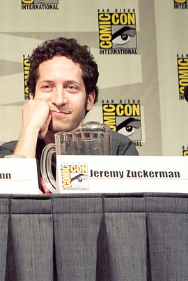 Jeremy Zuckerman was a guest speaker at Comic-Con 2011 for "The Character of Music" Panel in San Diego, CA.